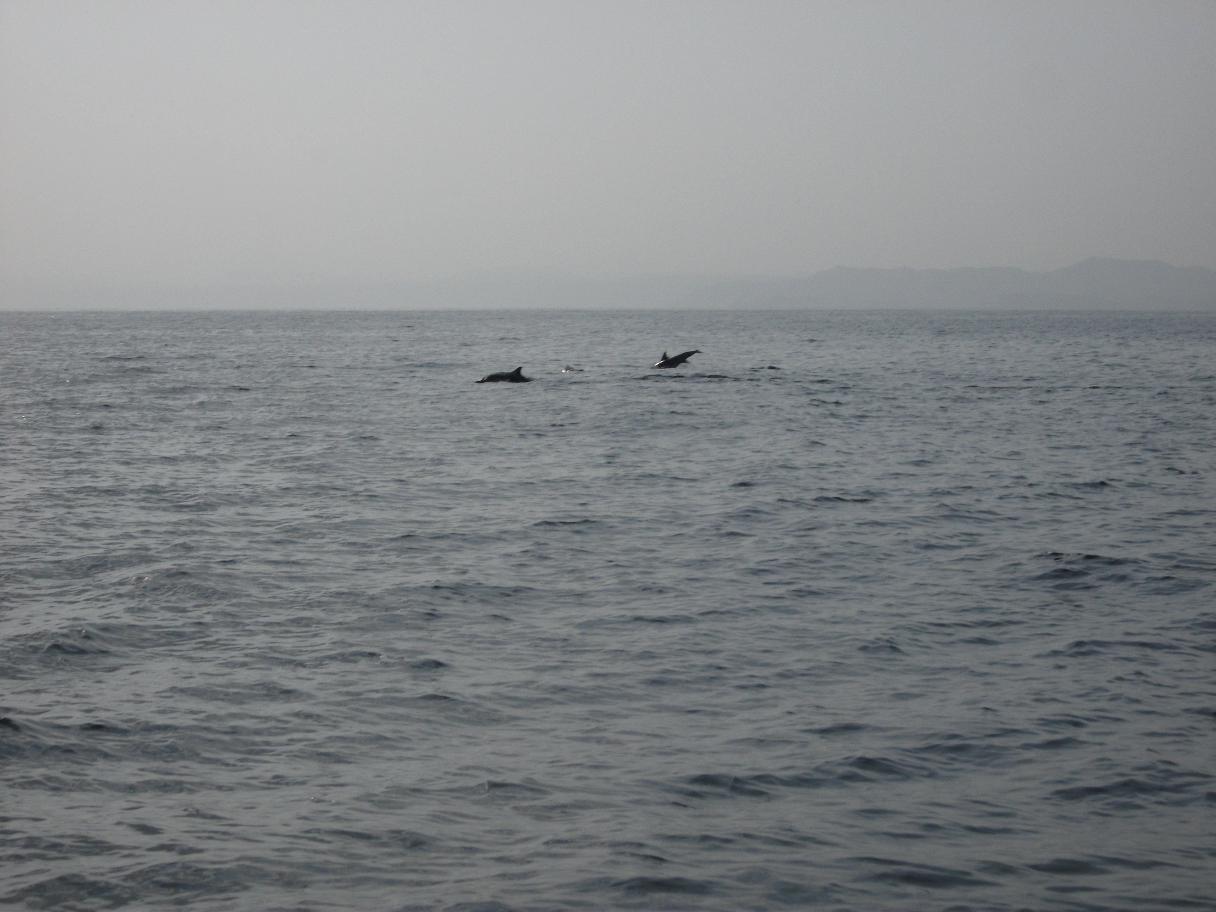 Dolphin watching from Al Bandar bay